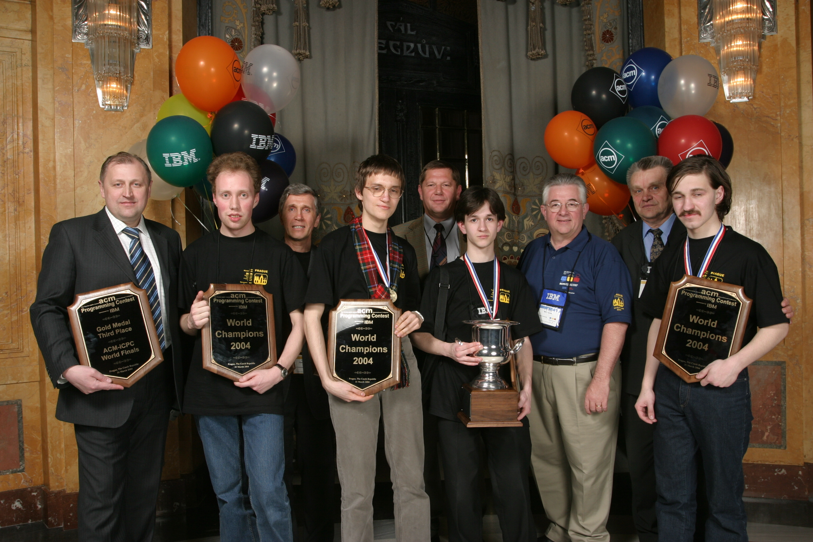 ACM ICPC World Champions 2004, ITMO University